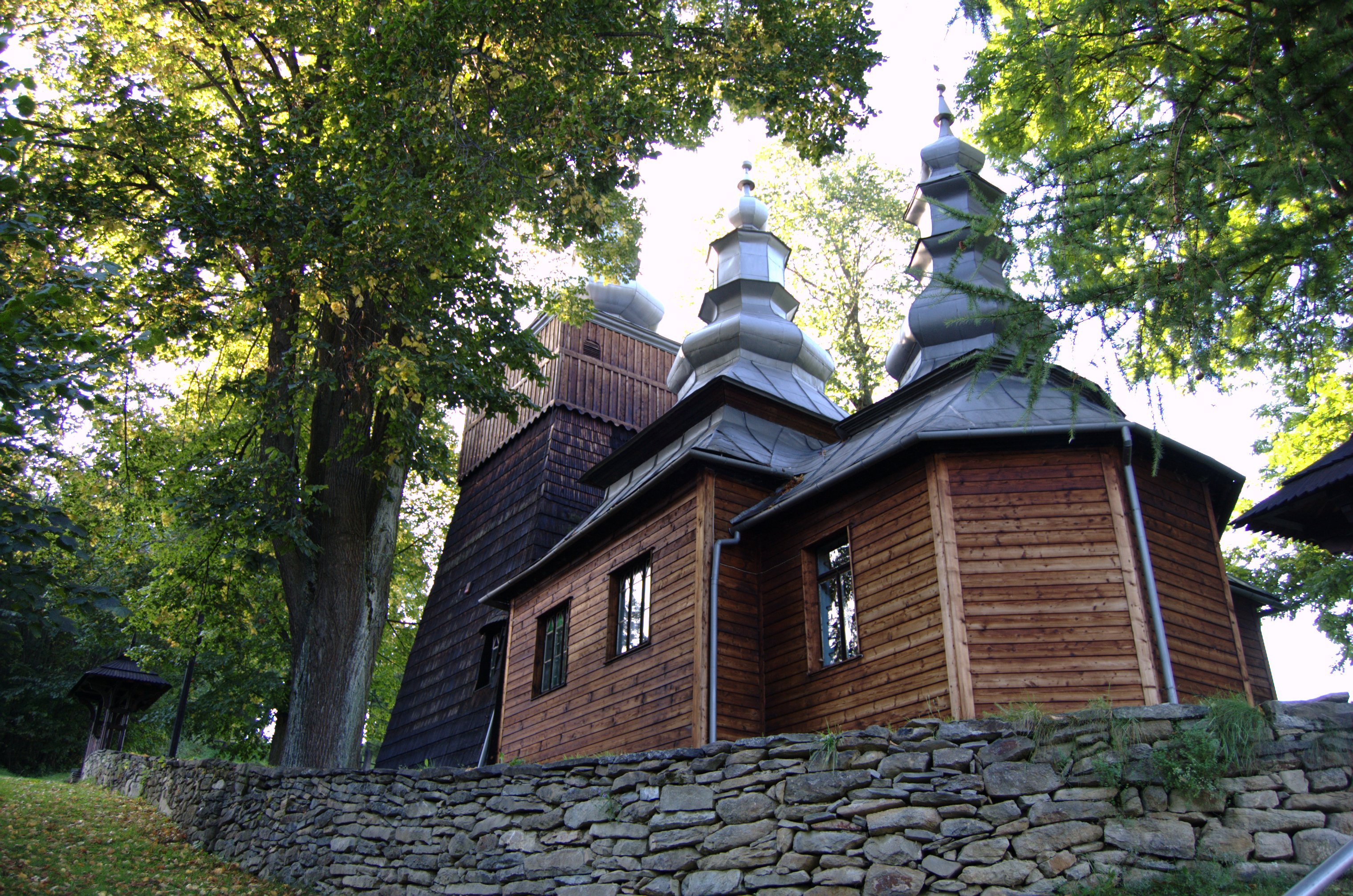 Church in Wojkowa